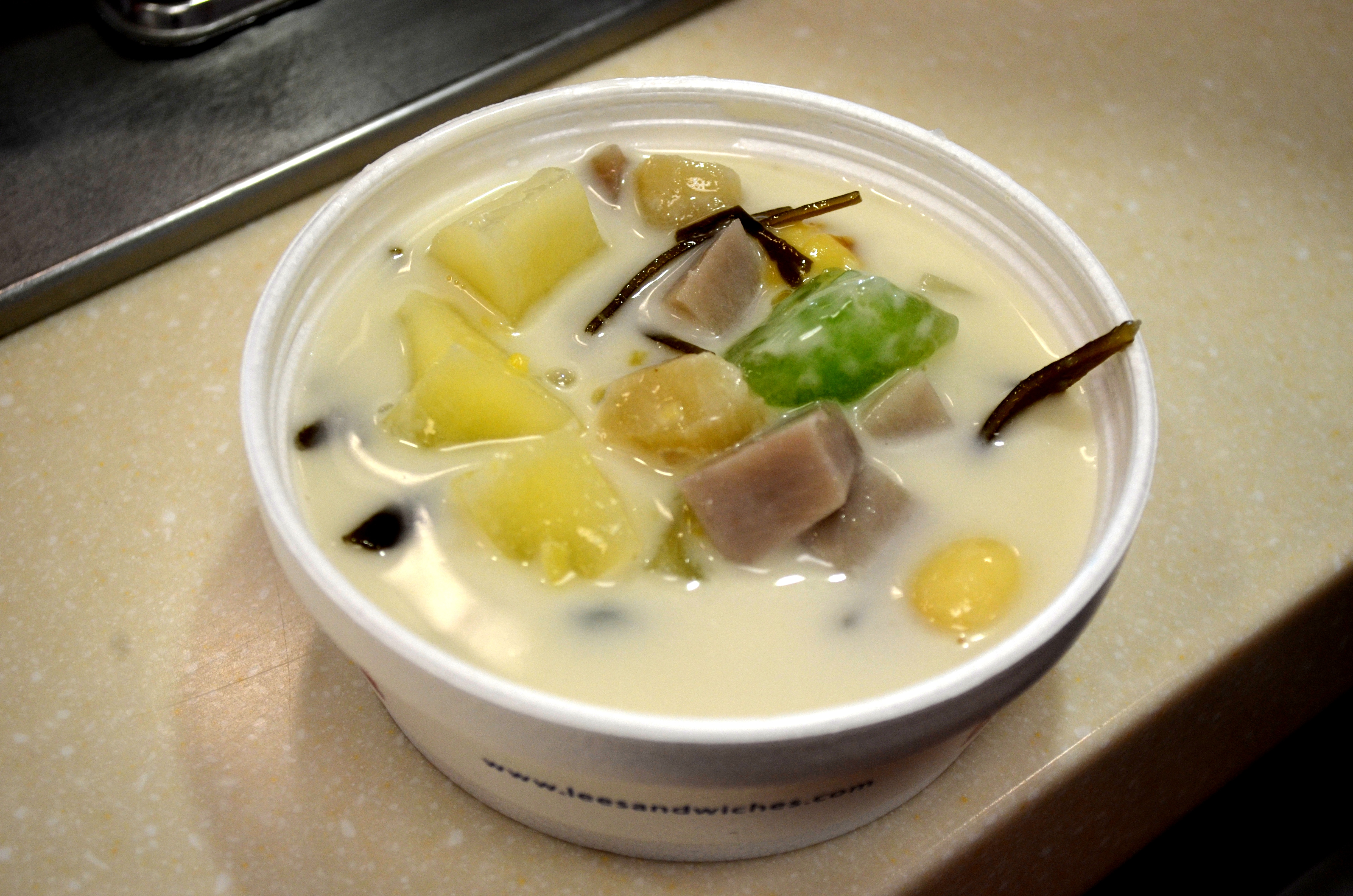 Bowl of Vietnamese dessert. Purple taro, light yellow cassava, seaweed, green bean, tapioca, and water chestnuts.